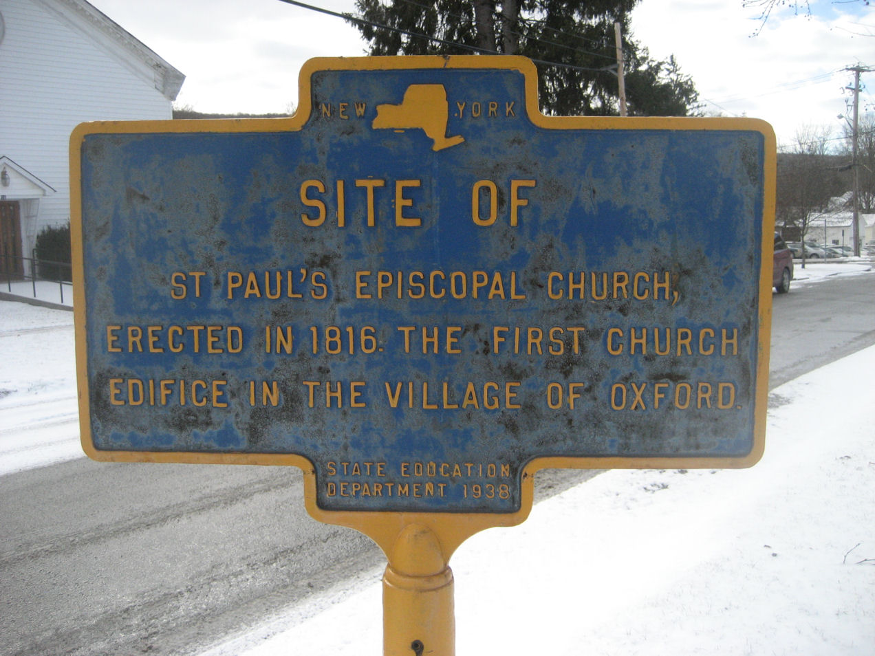 Historic marker of the site of St. Paul's Episcopal Church. Erected in 1816, the first church edifice in the village of Oxford, NY